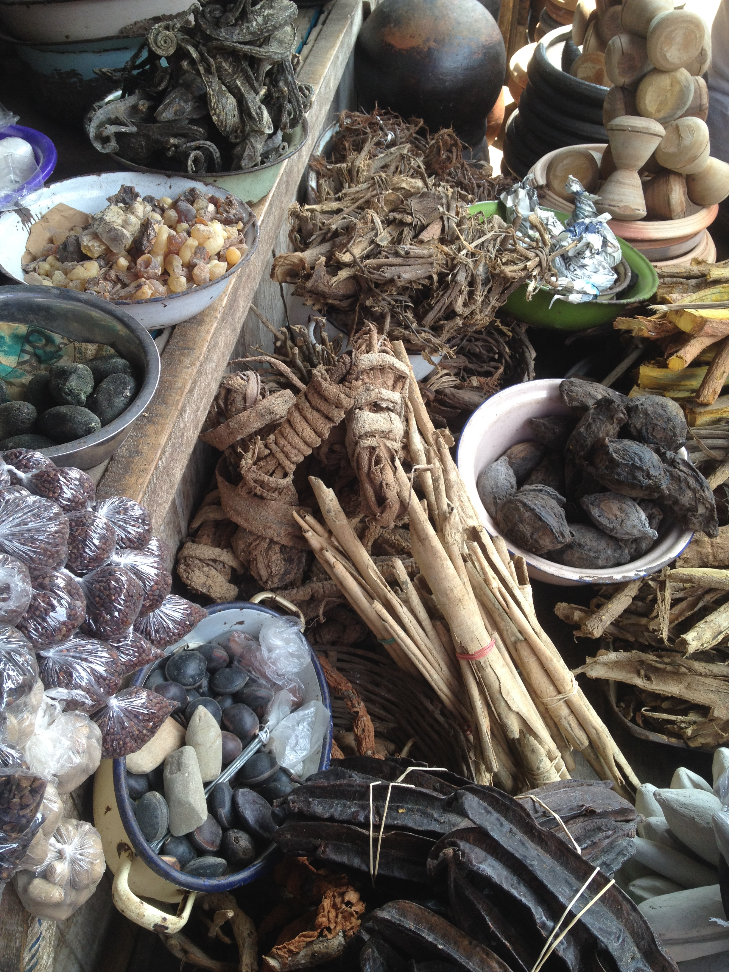 Medicine; Flavor; Market table This is an image of food from Ghana